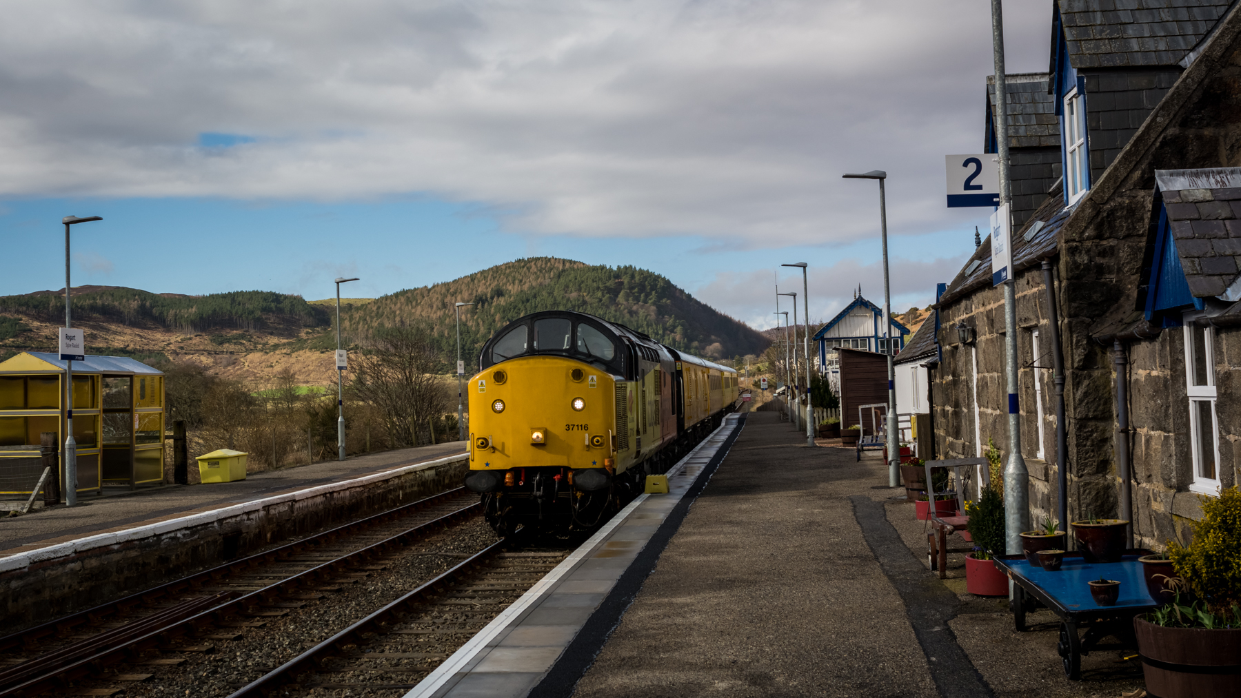 Test train at Rogart heading for Thurso and Wick